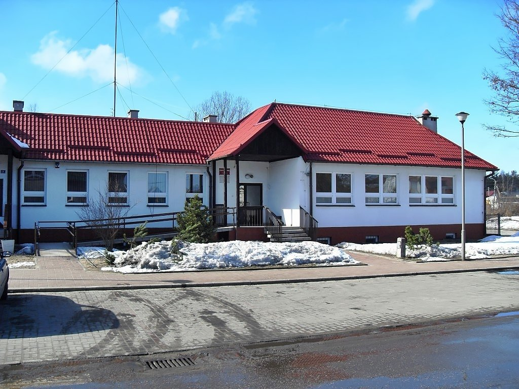 Building Health Center in Kaliska